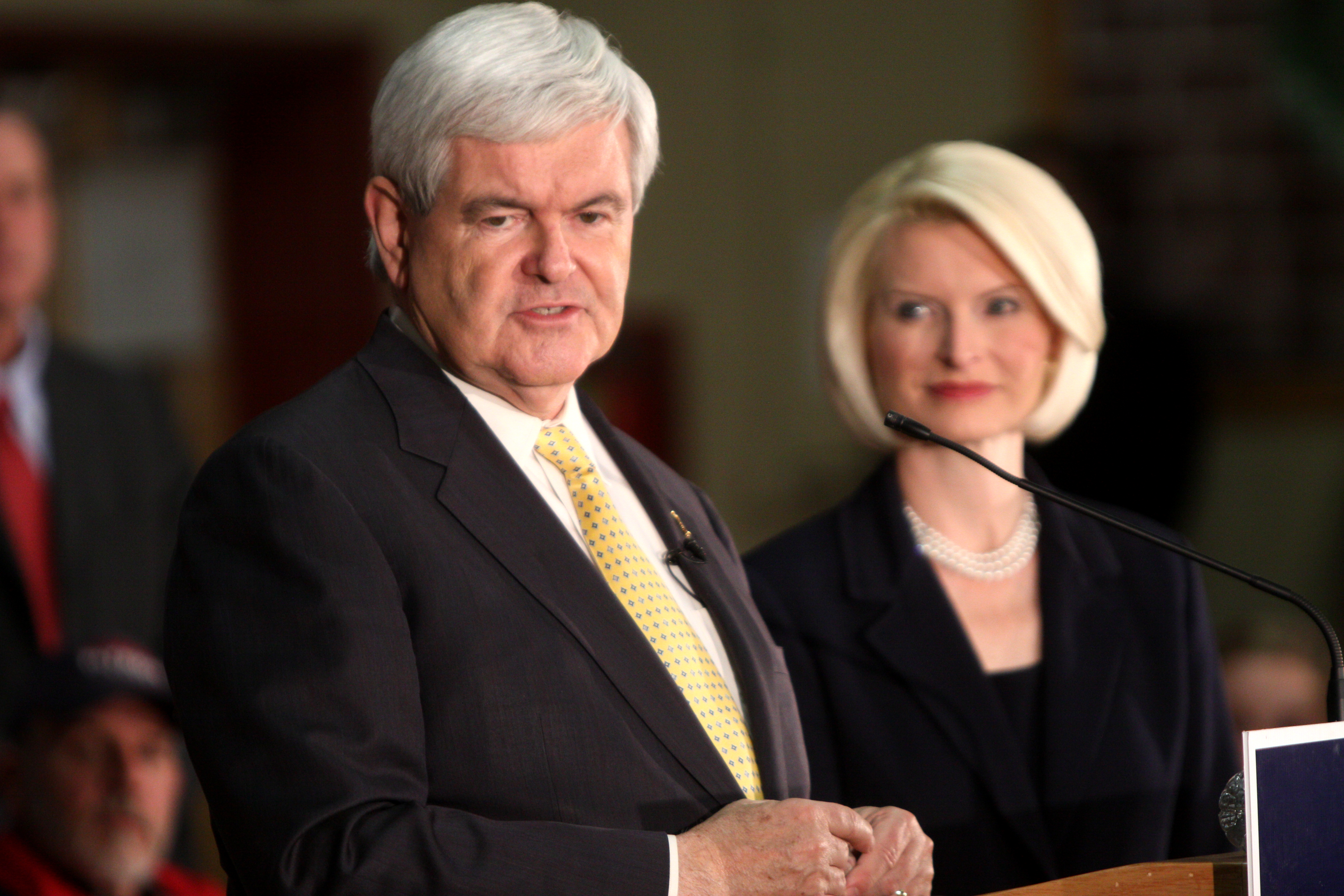 Newt Gingrich speaking to supporters at a townhall in Derry, New Hampshire, along with his wife, Callista.